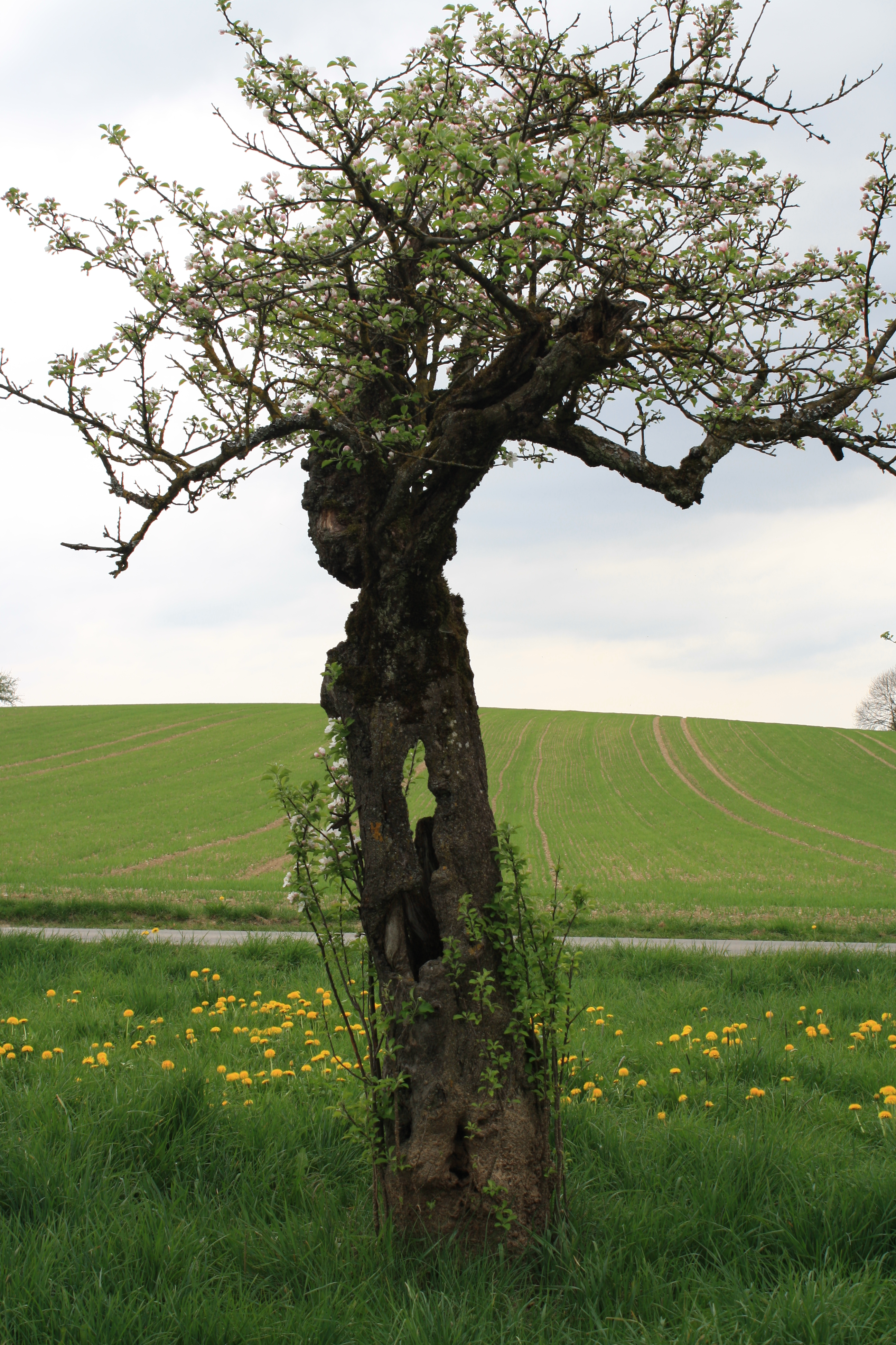 A hollow apple tree, but blooms every year and still bears juicy fruit.